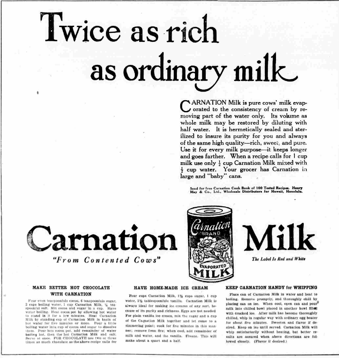 Newspaper ad for Carnation Milk in 1922.